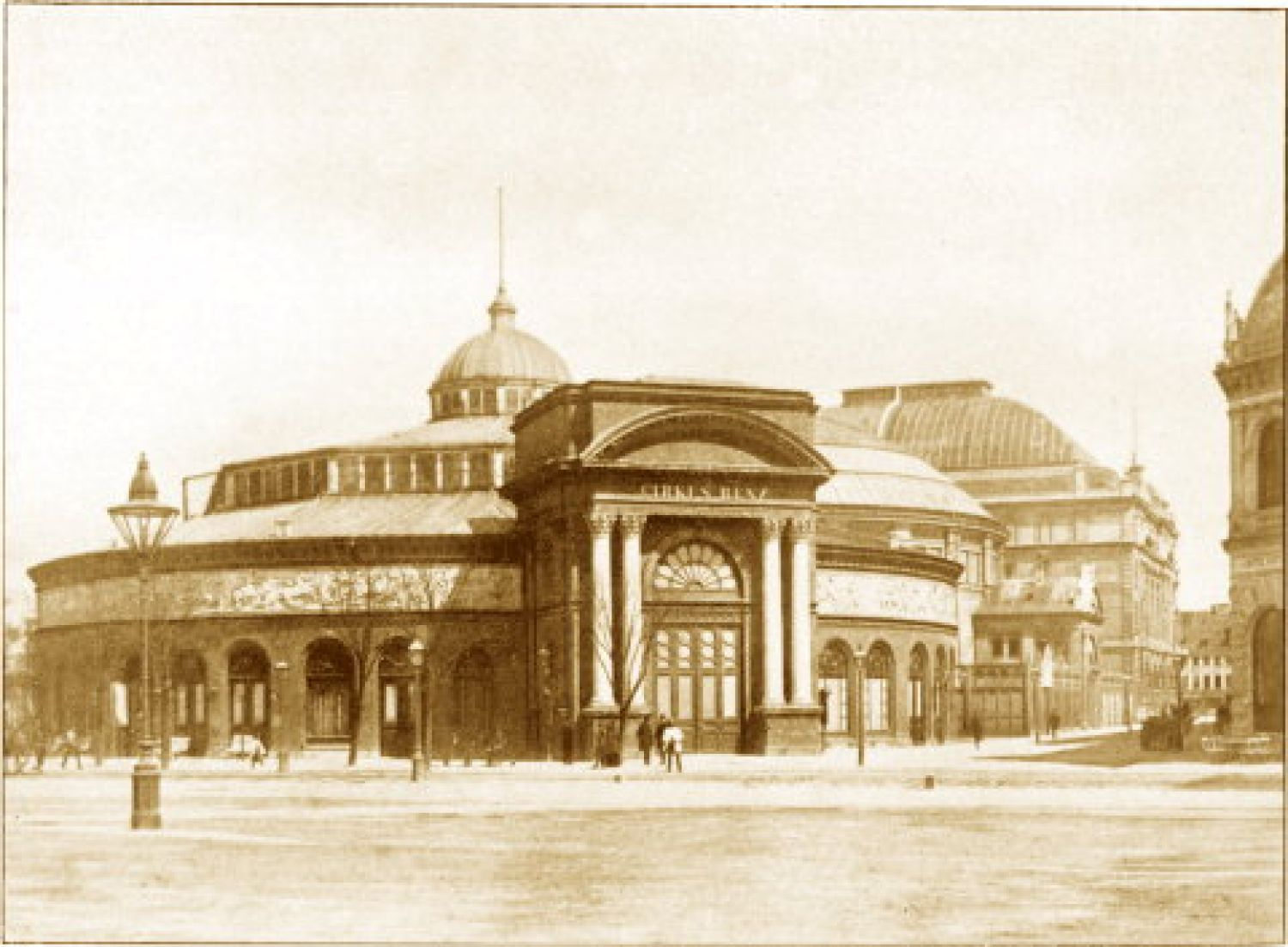 Cirkusbygningen in Copenhagen, Denmark